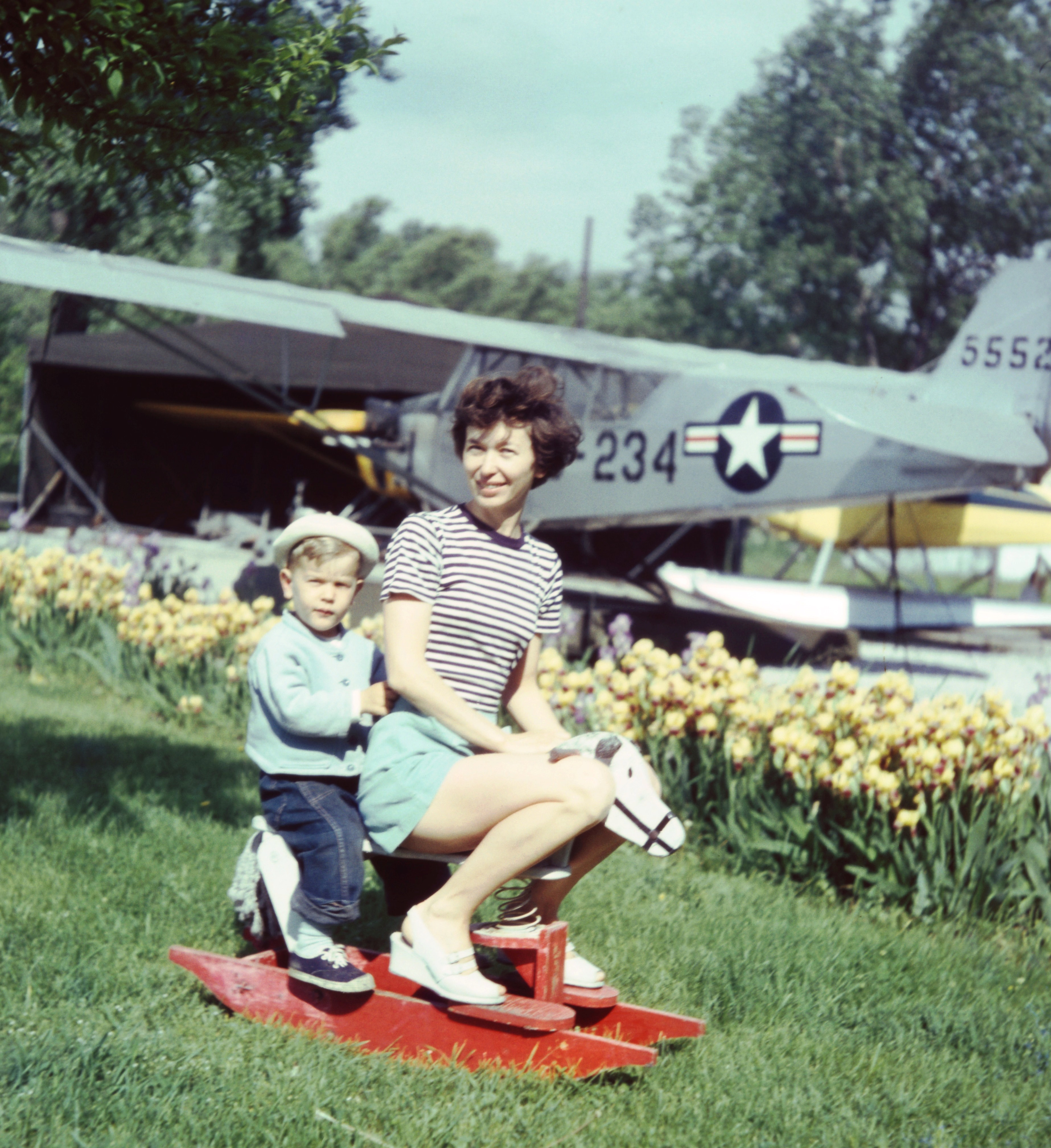 Rose Garland with son Harry T. Garland outside their house on the grounds of Garland's Seaplane Base in 1950